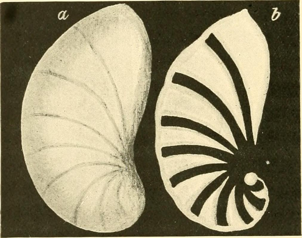 Fig. 18. a, Test of Cristellaria crepidula (F. and M.); h, siliceous internal cast of the same species from flint-meal, Upper Chalk. Highly magnified. After Eley. Now called Astacolus crepidulus (Fichtel & Moll, 1798)